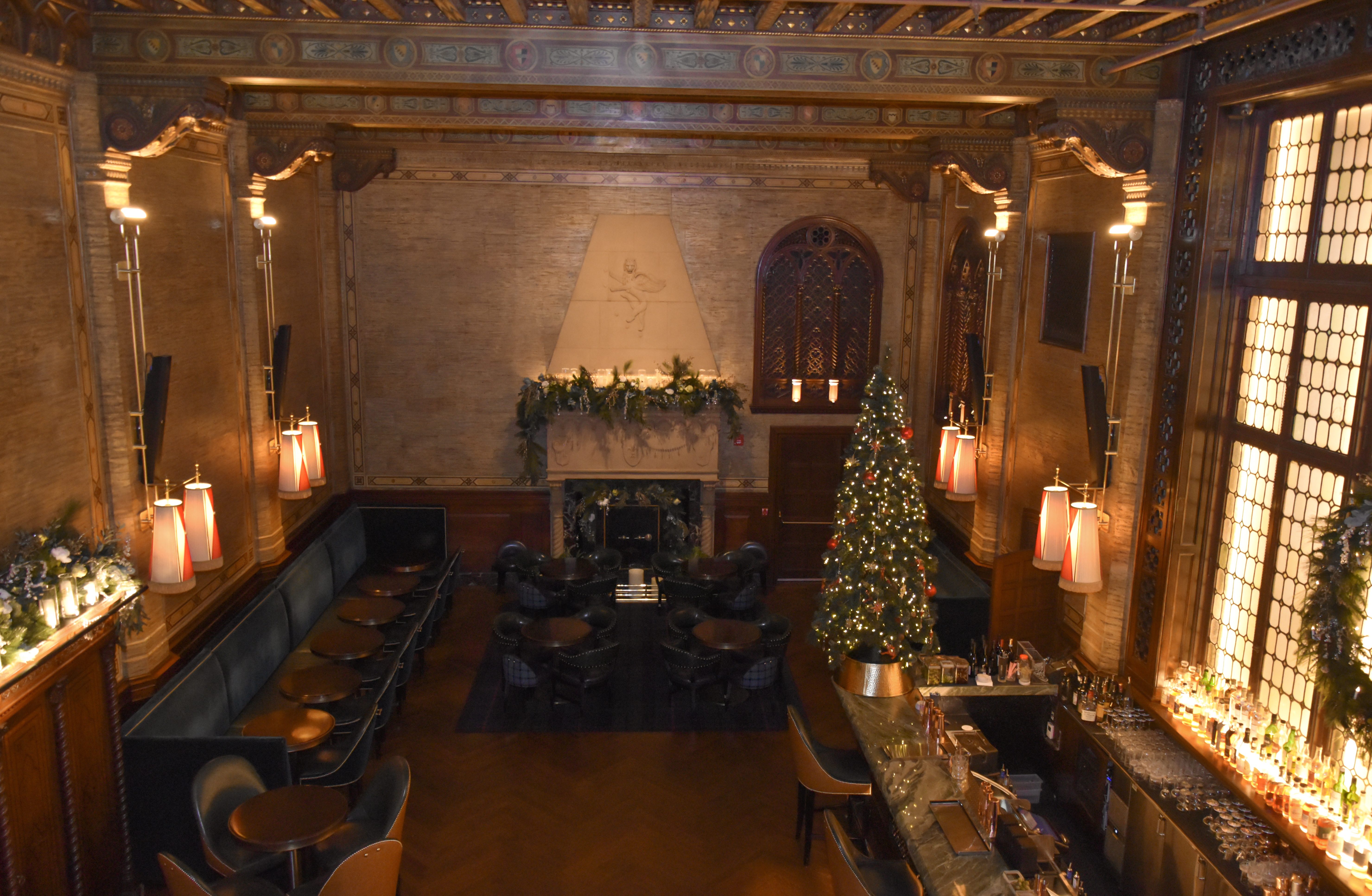 Campbell Bar in New York City's Grand Central Terminal in 2019. Taken as part of a scheduled photoshoot with three other Wikipedians on January 7, 2019.